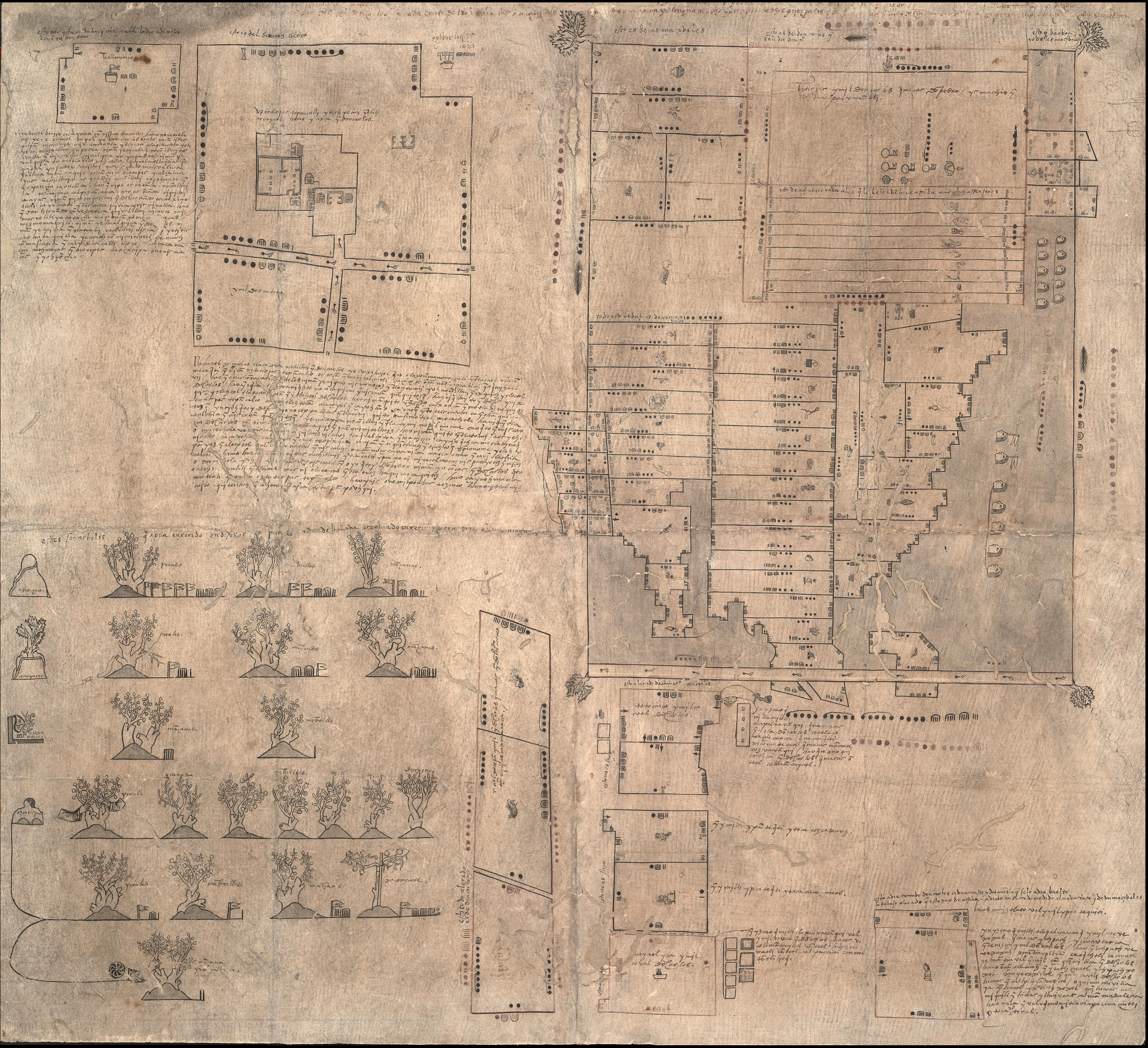 Otzoticpac Palace inside of the lands description in a milcocolli tlahuelmantli codex in Texcoco Mexico